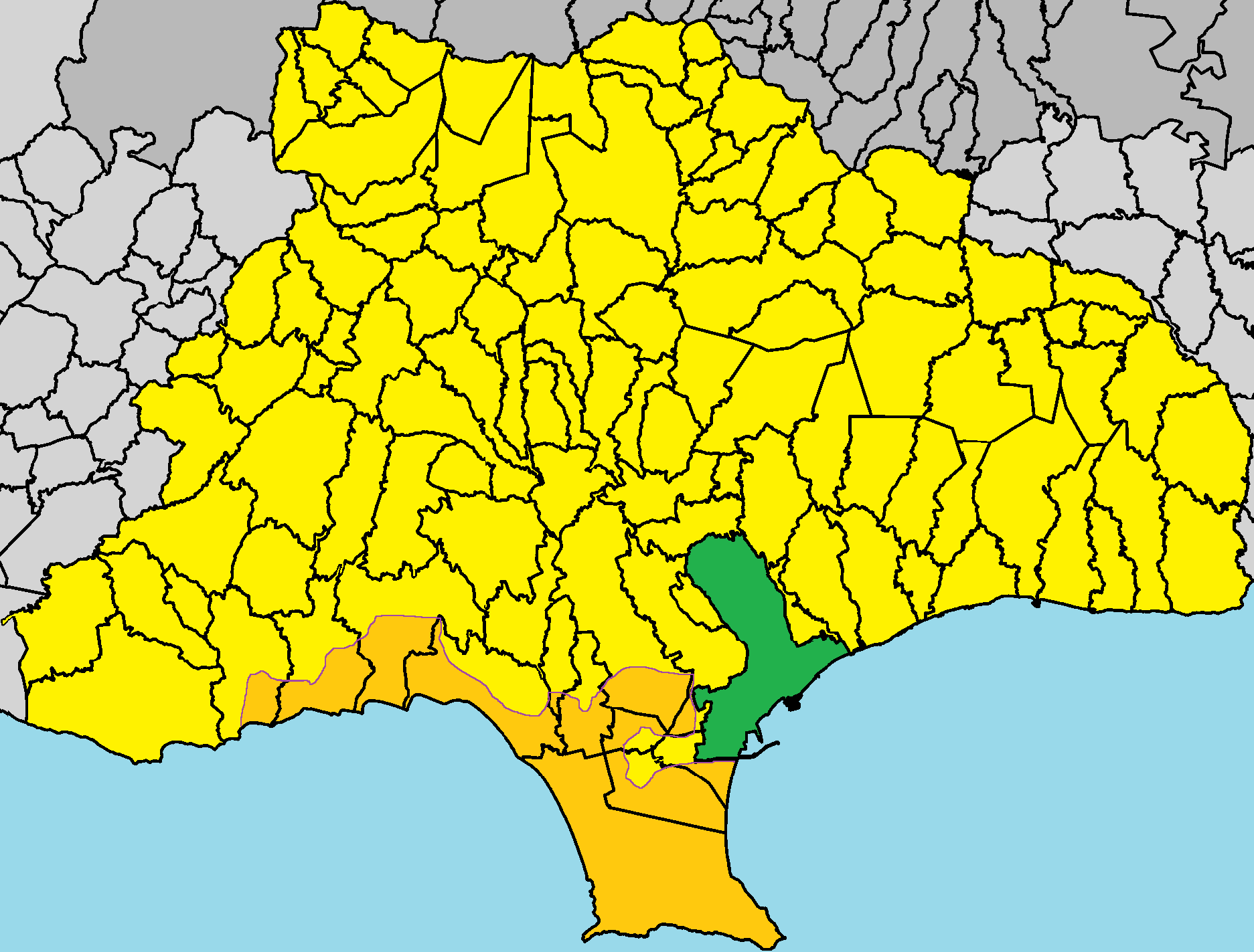 Limassol Municipality in Limassol District.